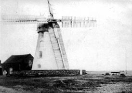 Fort Green Mill, Aldeburgh as a working windmill. House converted in 1902 so picture is older than this date.